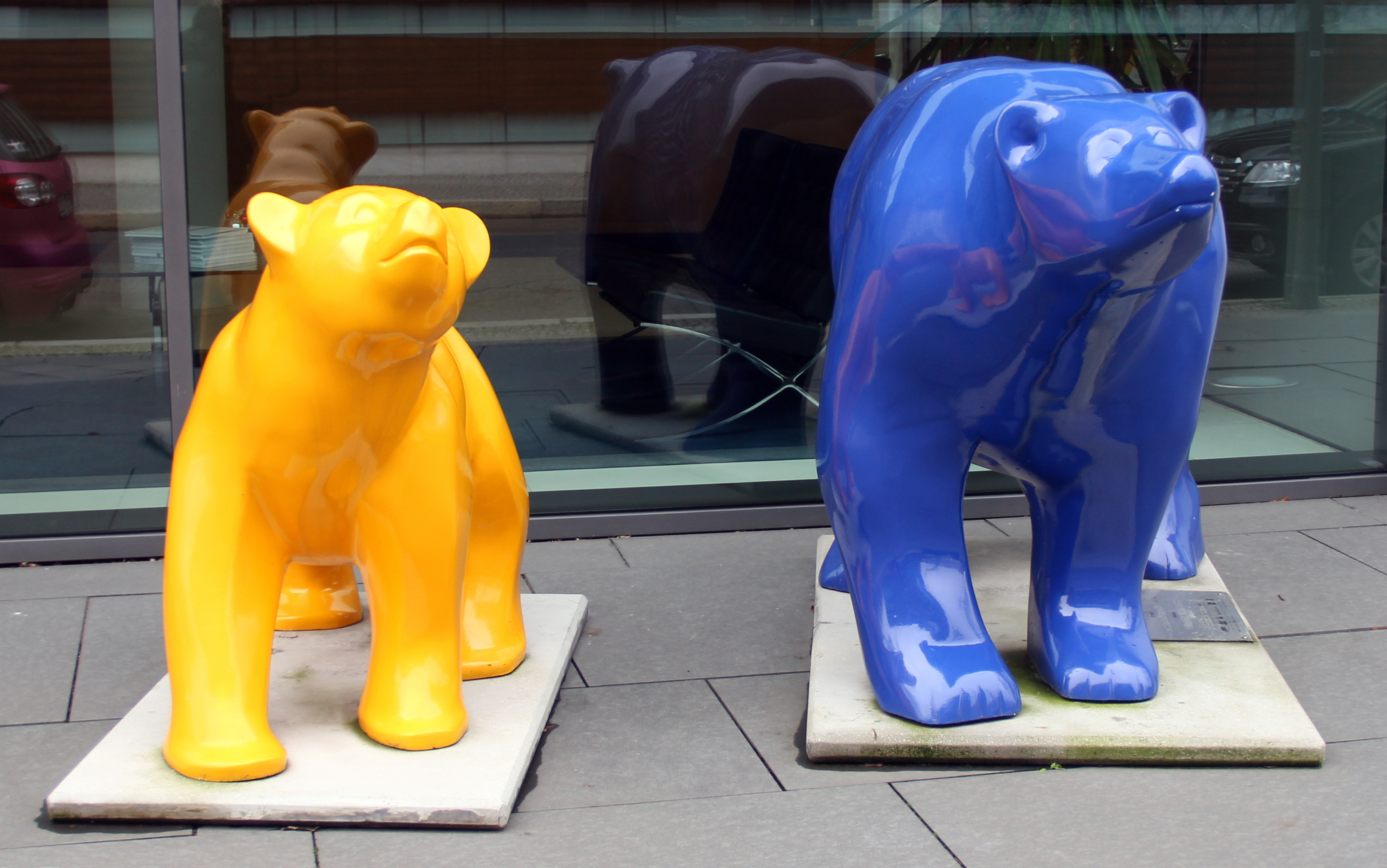 Buddy Baer, Buddy Bär, Rauchstraße 26, Berlin-Tiergarten, Germany